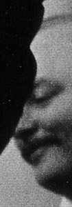 Okopenko had helt the laudatio for H.C. Artmann, when thisone was honoured with Grand Austrian State Prize for literature. On this photograph, he is smiling due to one of Artmann's typical figures of speech.